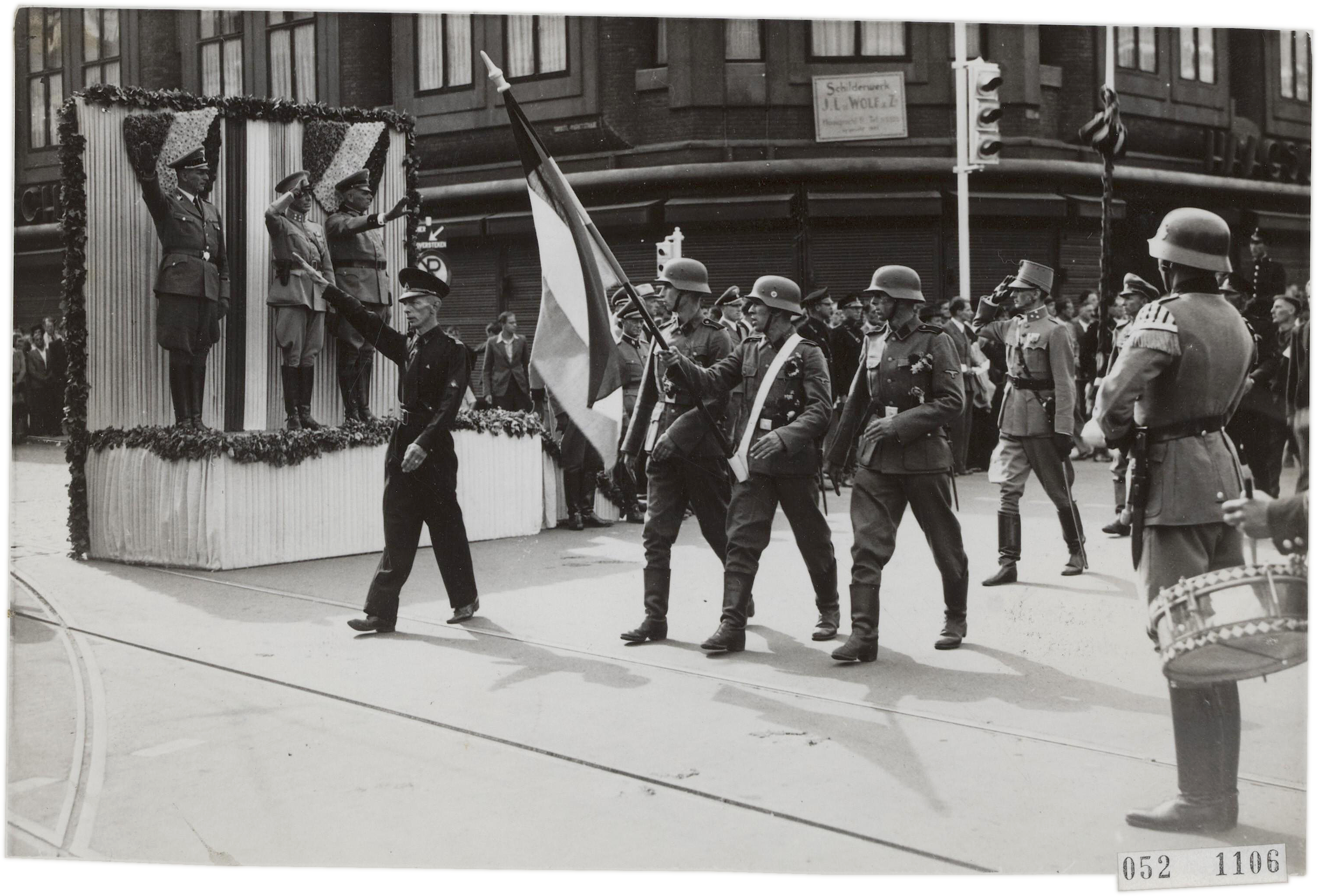 The Spui on the corner with Grote Marktstraat, The Hague, 1941:General der Flieger Friedrich Christiansen (l.), Lieutenant-General Hendrik Seyffardt (m.) And SS-Obergruppenfuehrer Hanns Albin Rauter (r.), Standing on stage, view a parade of the Dutch Volunteer Legion of the Waffen SS. On the right, in a Dutch uniform, Captain Eduard Leendert Voorwinden (Rotterdam, 1899 - Kamp Westerbork, 1947), who later exchanged his uniform for that of SS-Hauptsturmführer. By the way, Seyffardt also wears his Dutch army uniform, an act of state treason. Seyffardt was assassinated by the Dutch resistance in 1943.